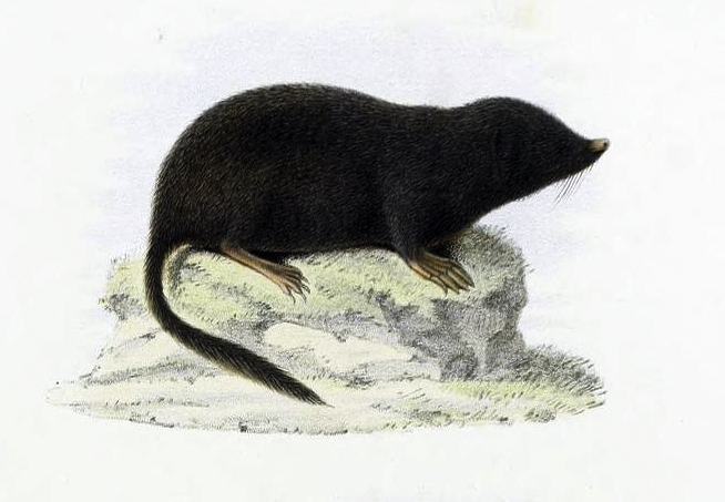 A drawing of a long-tailed mole (cropped).